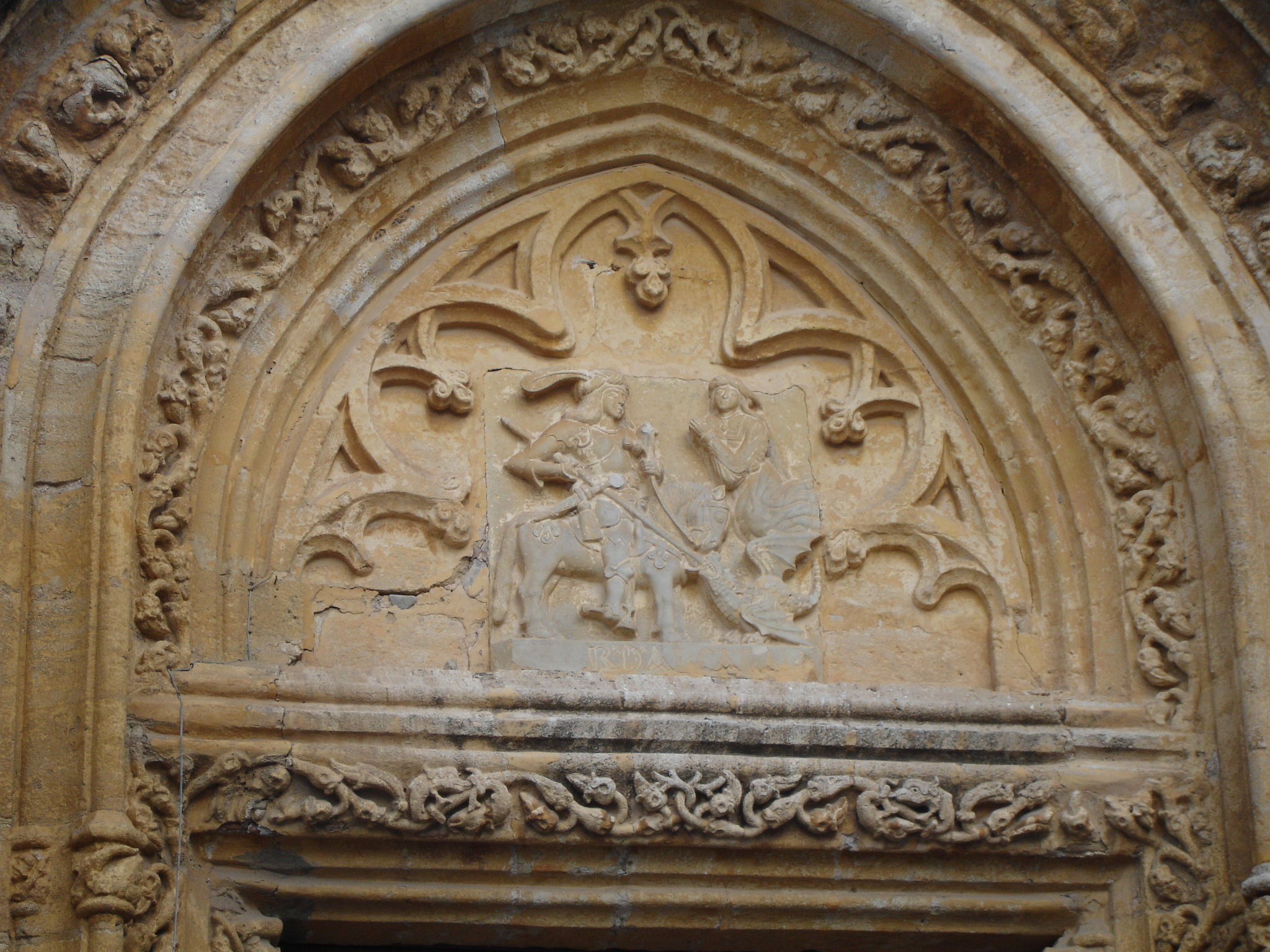 Detail of the main church at in Alcala de los Gazules, Andalusia (Spain)